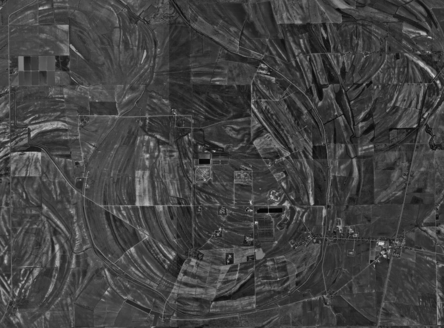 USGS orthophoto of Mississippi State Penitentiary in Mississippi, United States